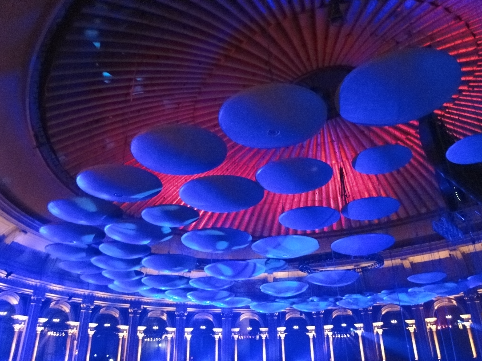 Acoustic discs suspended from the roof of London's Royal Albert Hall